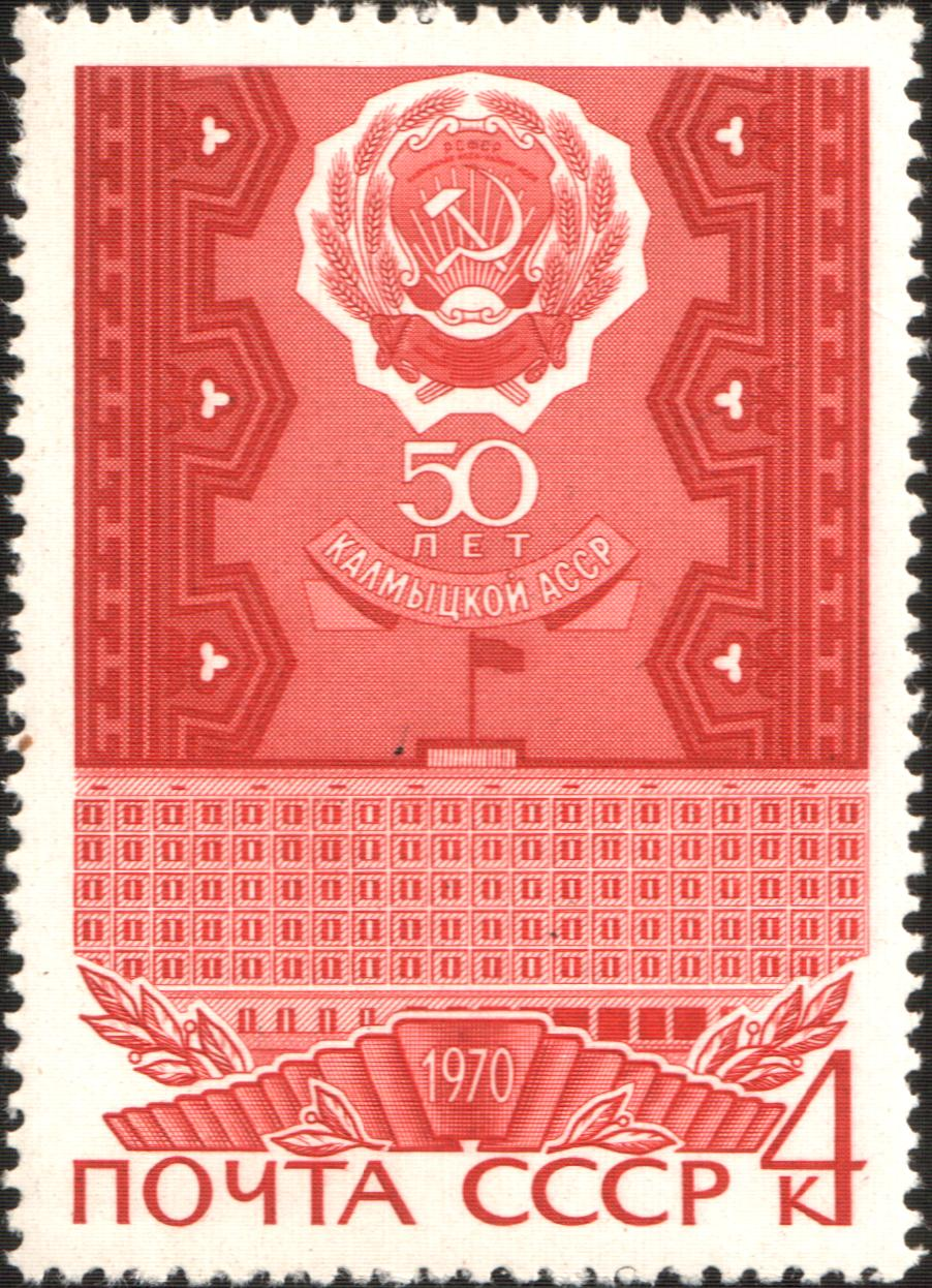 USSR stamp: Kalmyk Autonomous Soviet Socialist Republic (Established on 1920.11.04). Series: 50th Anniversary of the Autonomous Republics of the Soviet Union